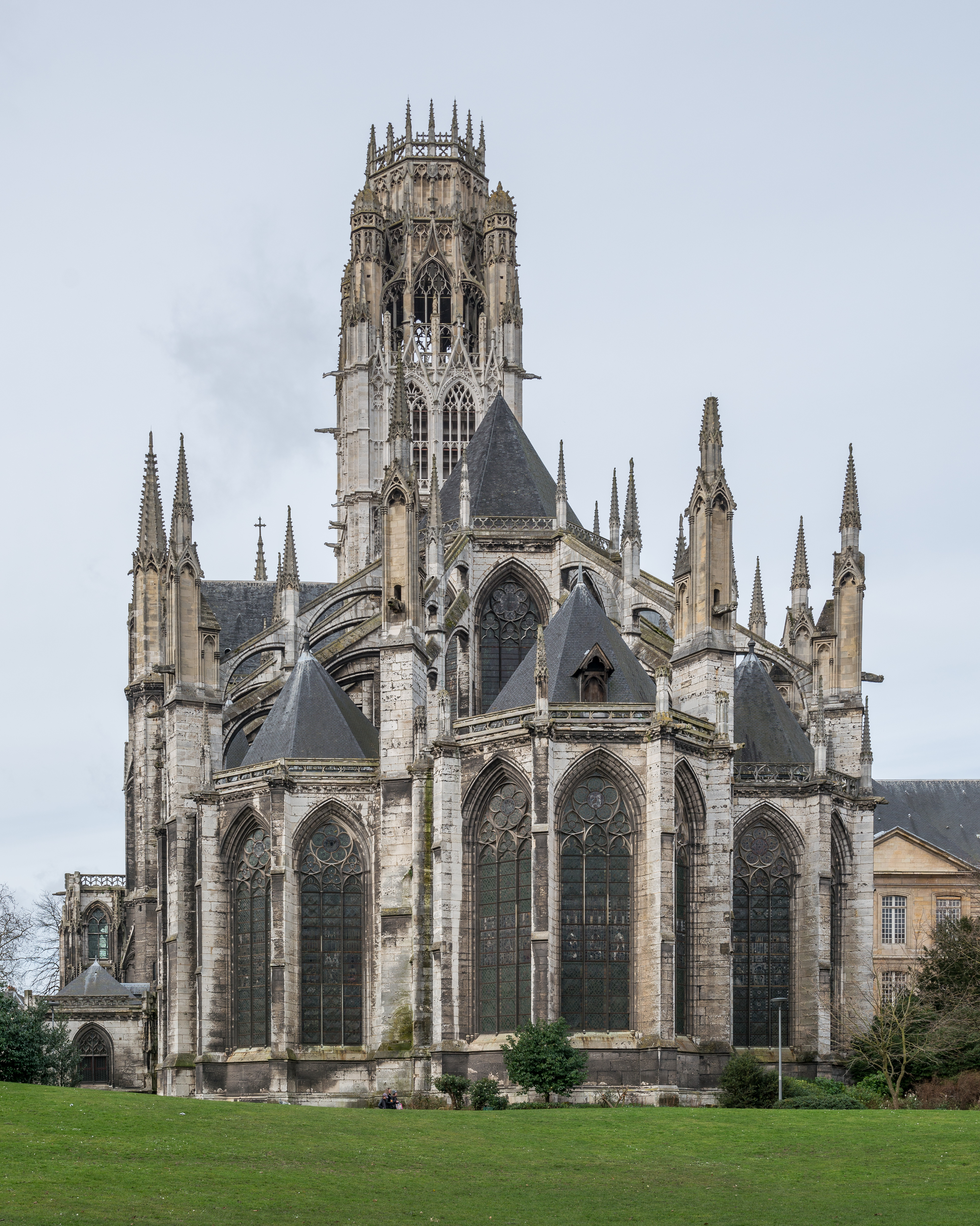 The Saint-Ouen Church in Rouen as seen from west